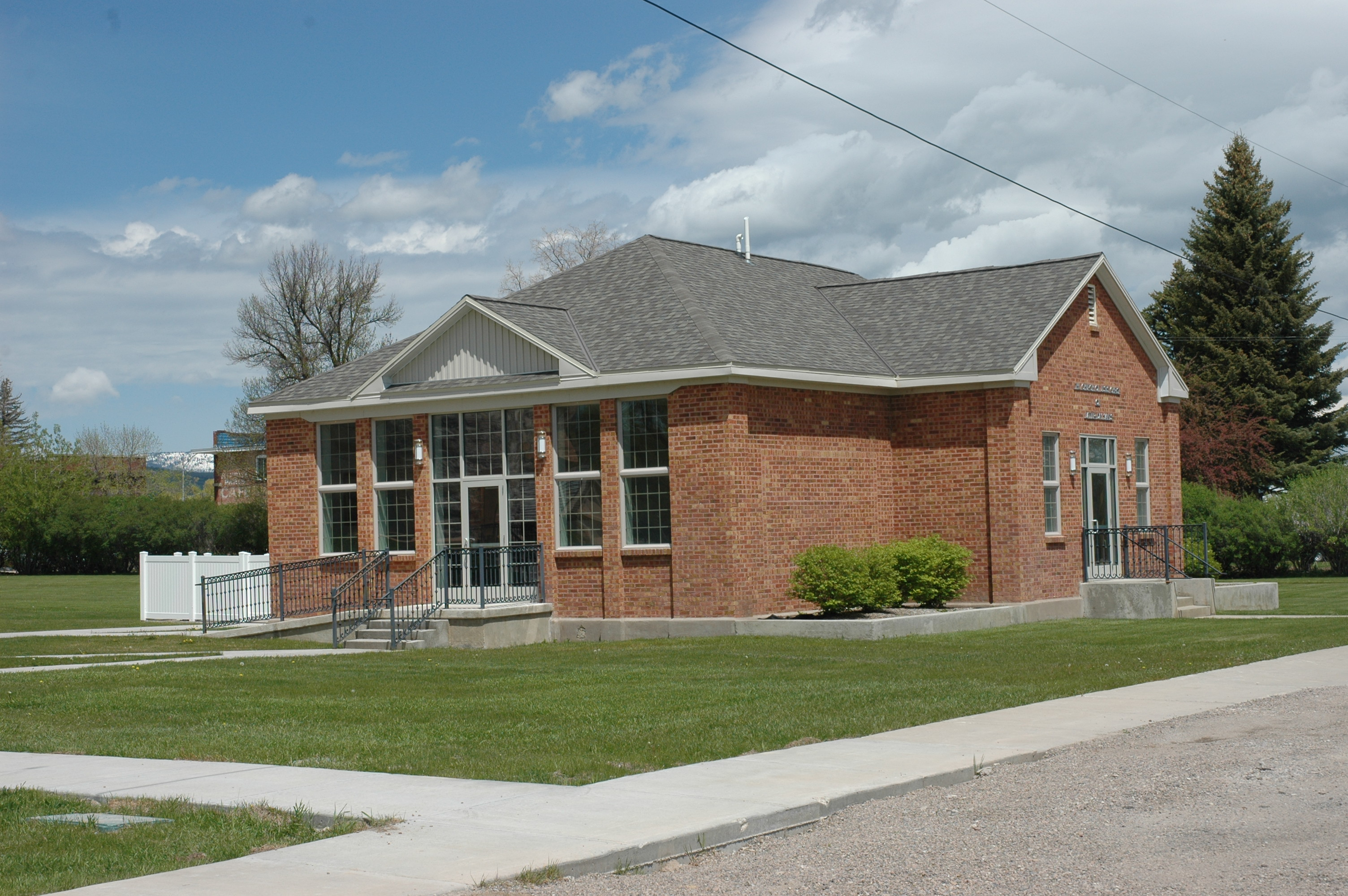 The LDS Seminary, a historic building in Paris, Idaho, United States.